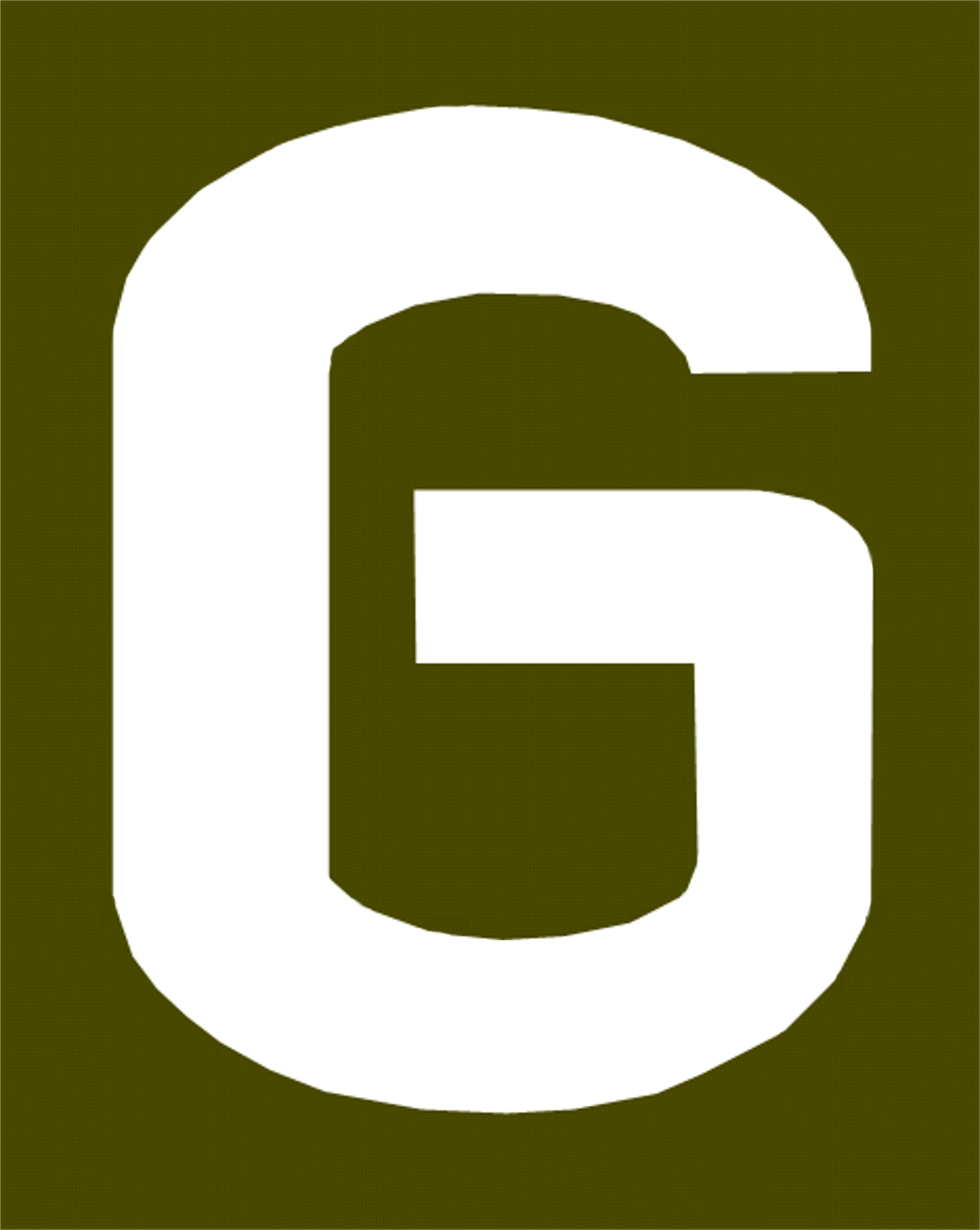 Insignia of the German Second Panzer Army